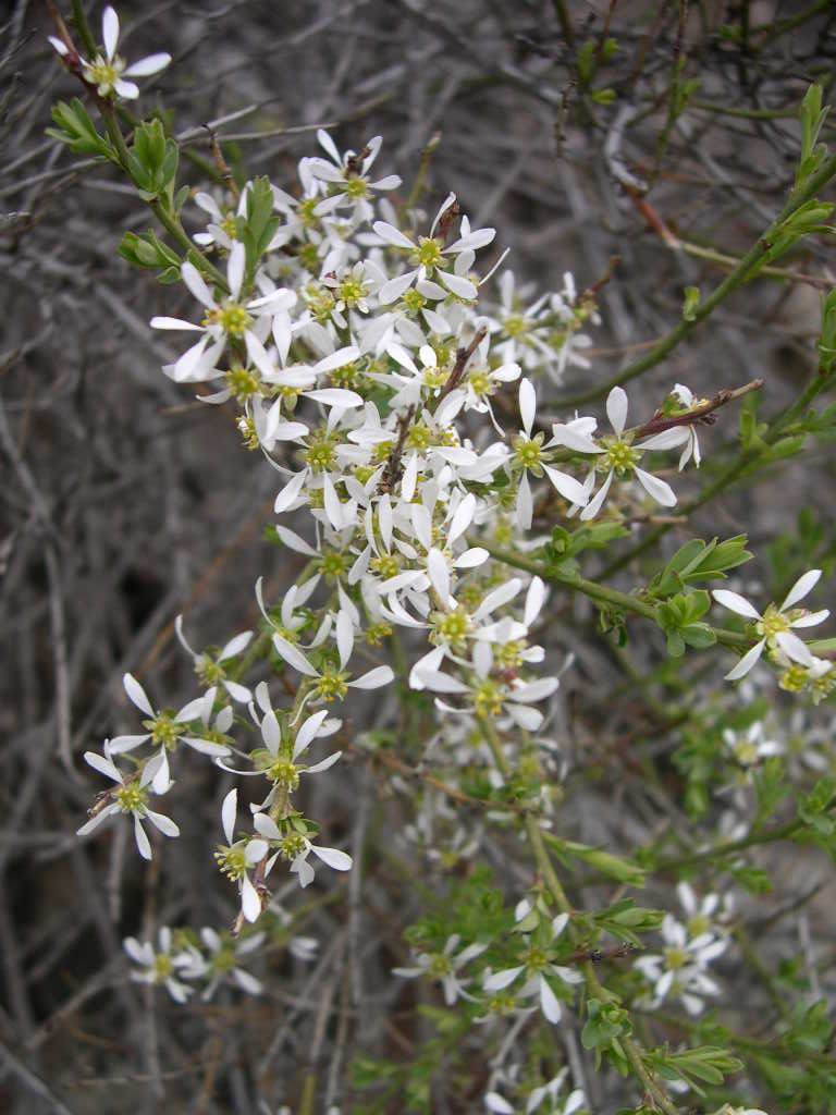 Glossopetalon spinescens var. aridum in southwest Idaho